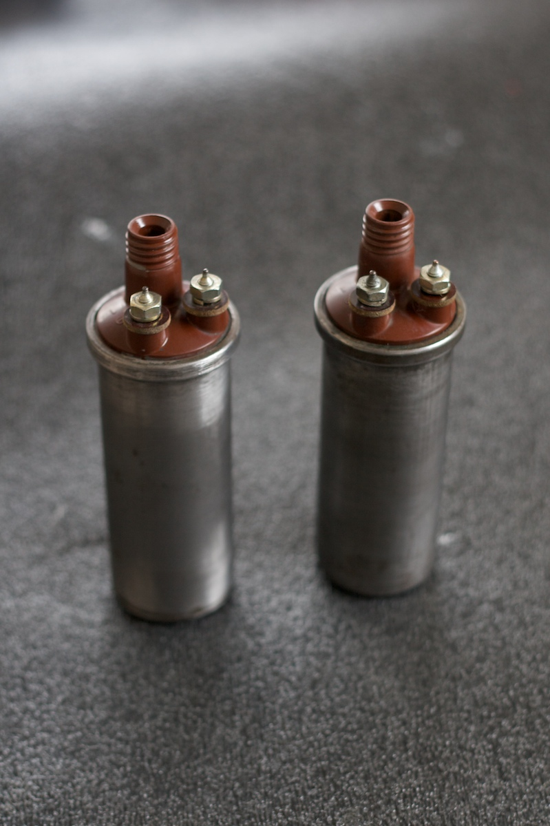 Ignition coils